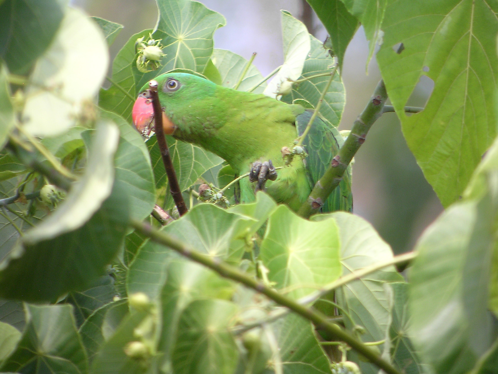 Blue-naped Parrot at Subic Bay, Luzon, Philippines.